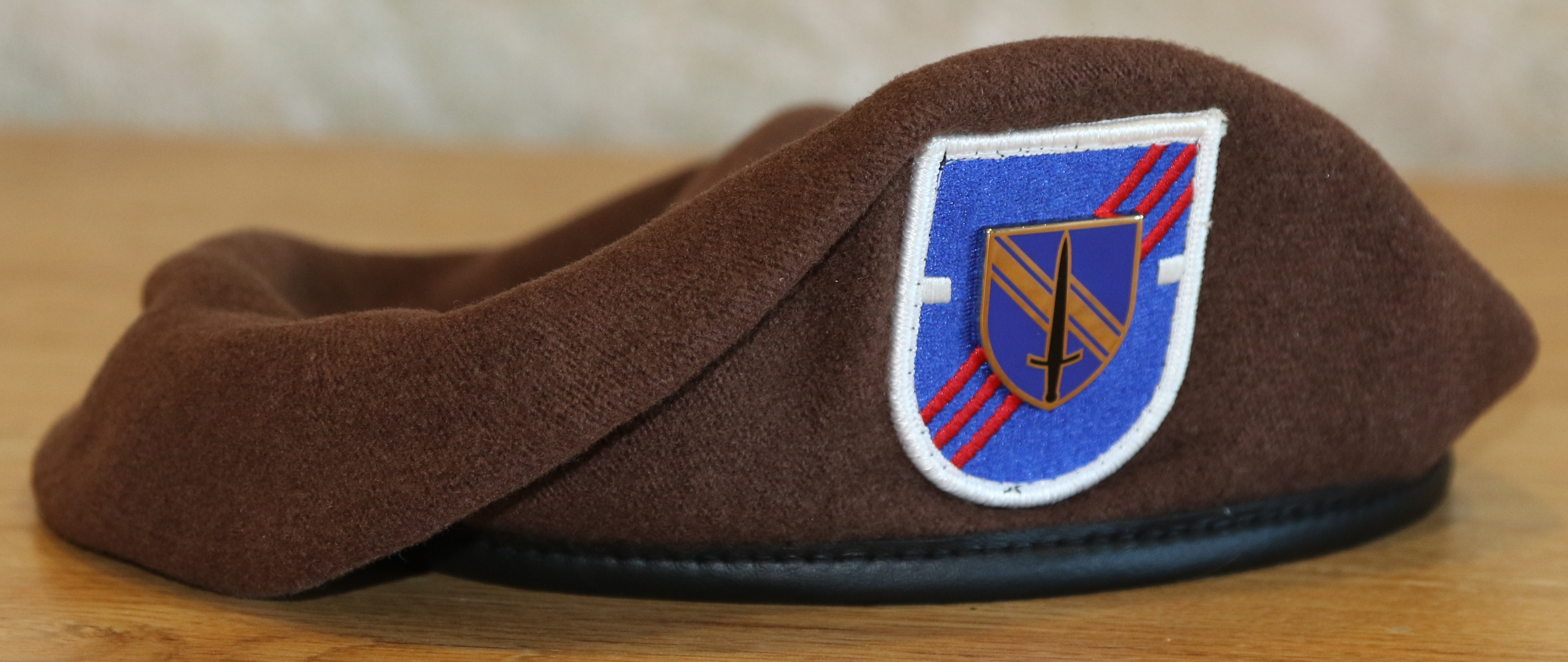 U.S. Army's 1st Security Force Assistance Brigade beret unit flash and distinctive unit insignia